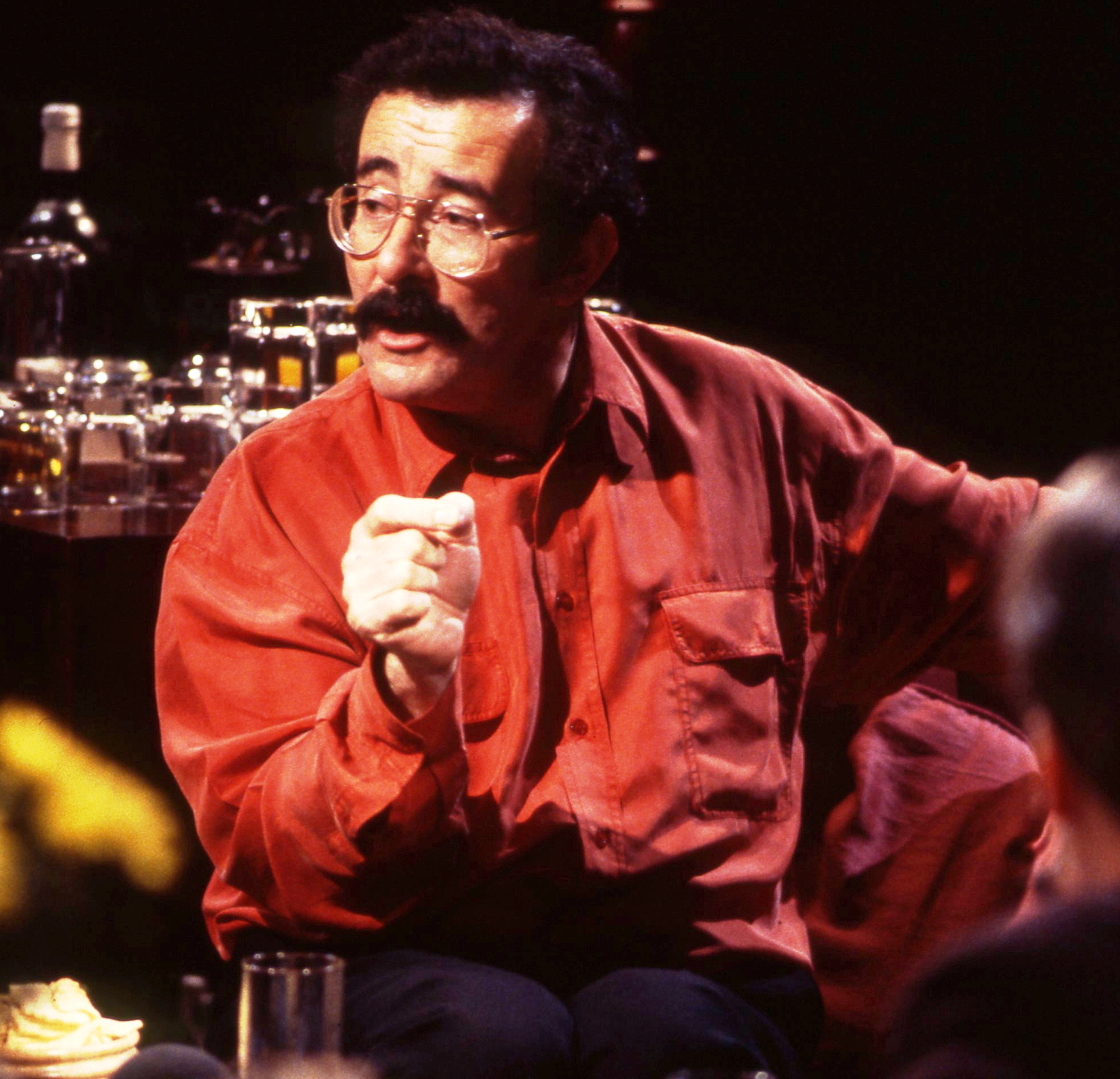 Robert Winston appearing on TV discussion programme After Dark on 30 May 1994